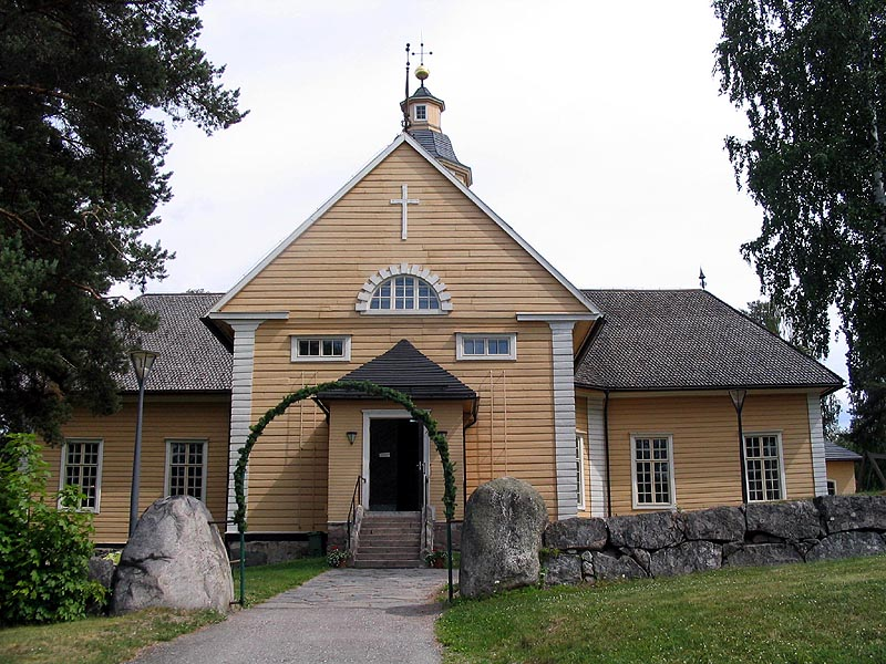 Nastola Church, Nastola, Finland